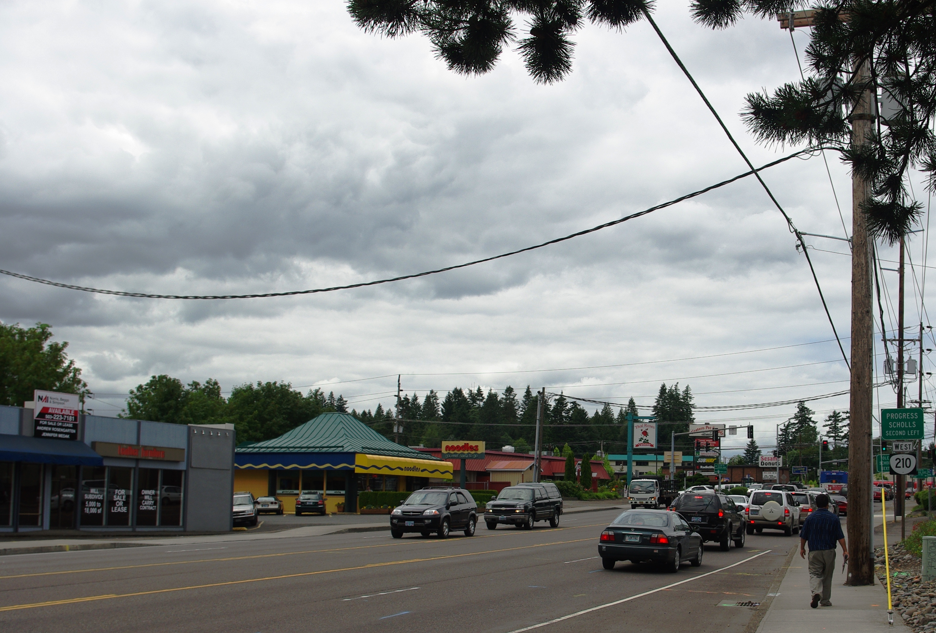 Raleigh Hills, Oregon, neighborhood near Portland, Oregon. Oregon Route 10.